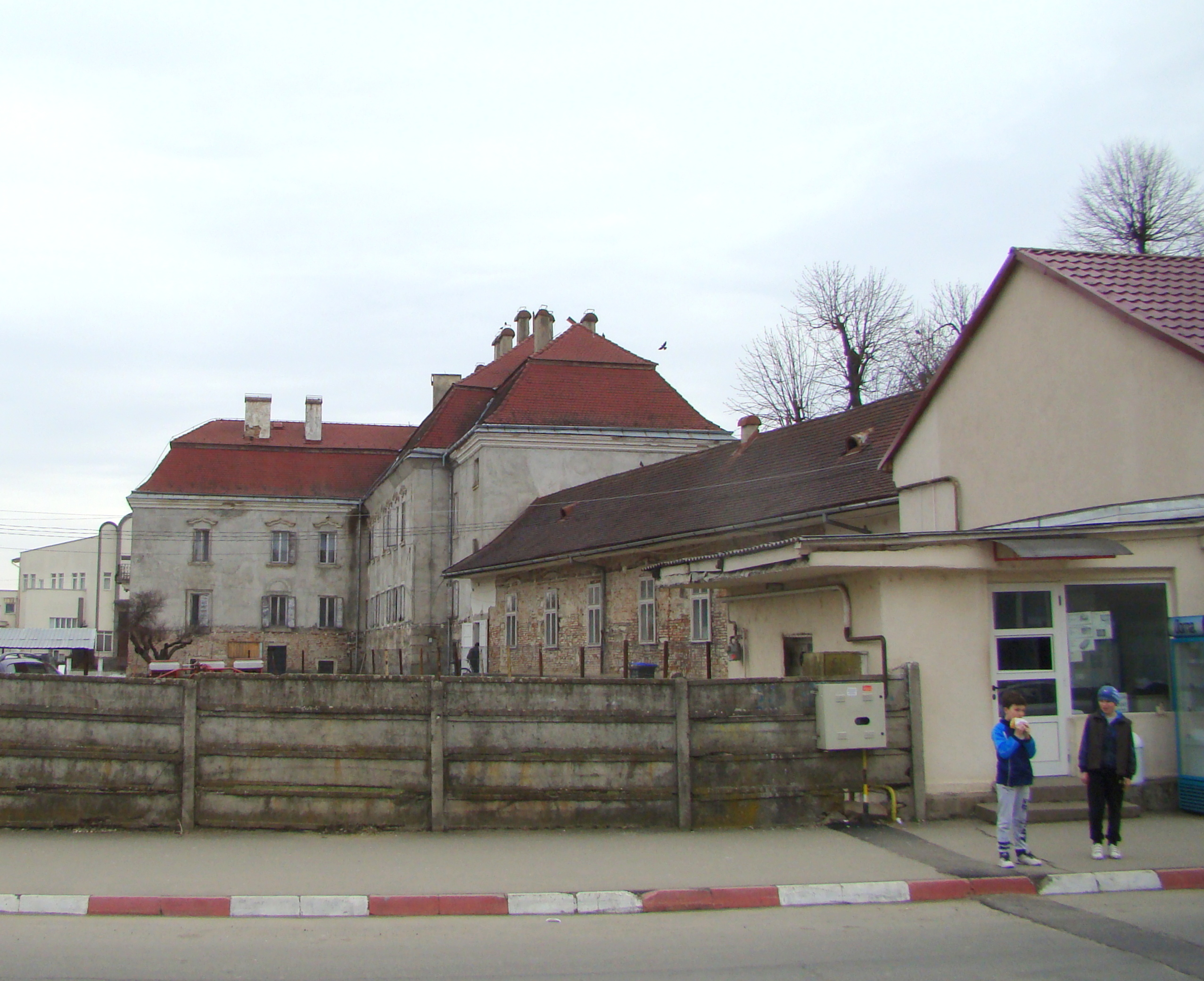 Bethlen castle in Beclean, Bistrița-Năsăud county, Romania